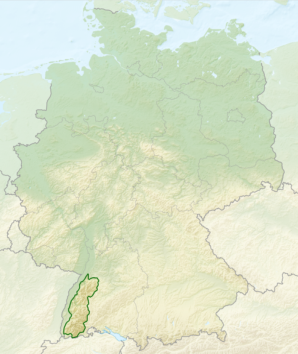 Relief map of Germany with outlines of the Black Forest. Equirectangular projection, N/S stretching 150 %. Geographic limits of the map: * N: 55.1° N * S: 47.2° N * W: 5.5° E * E: 15.5° E